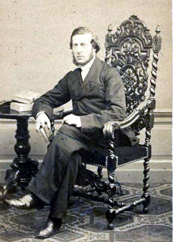 Portret van dr. Lewis Cohen Stuart (1827-1878)